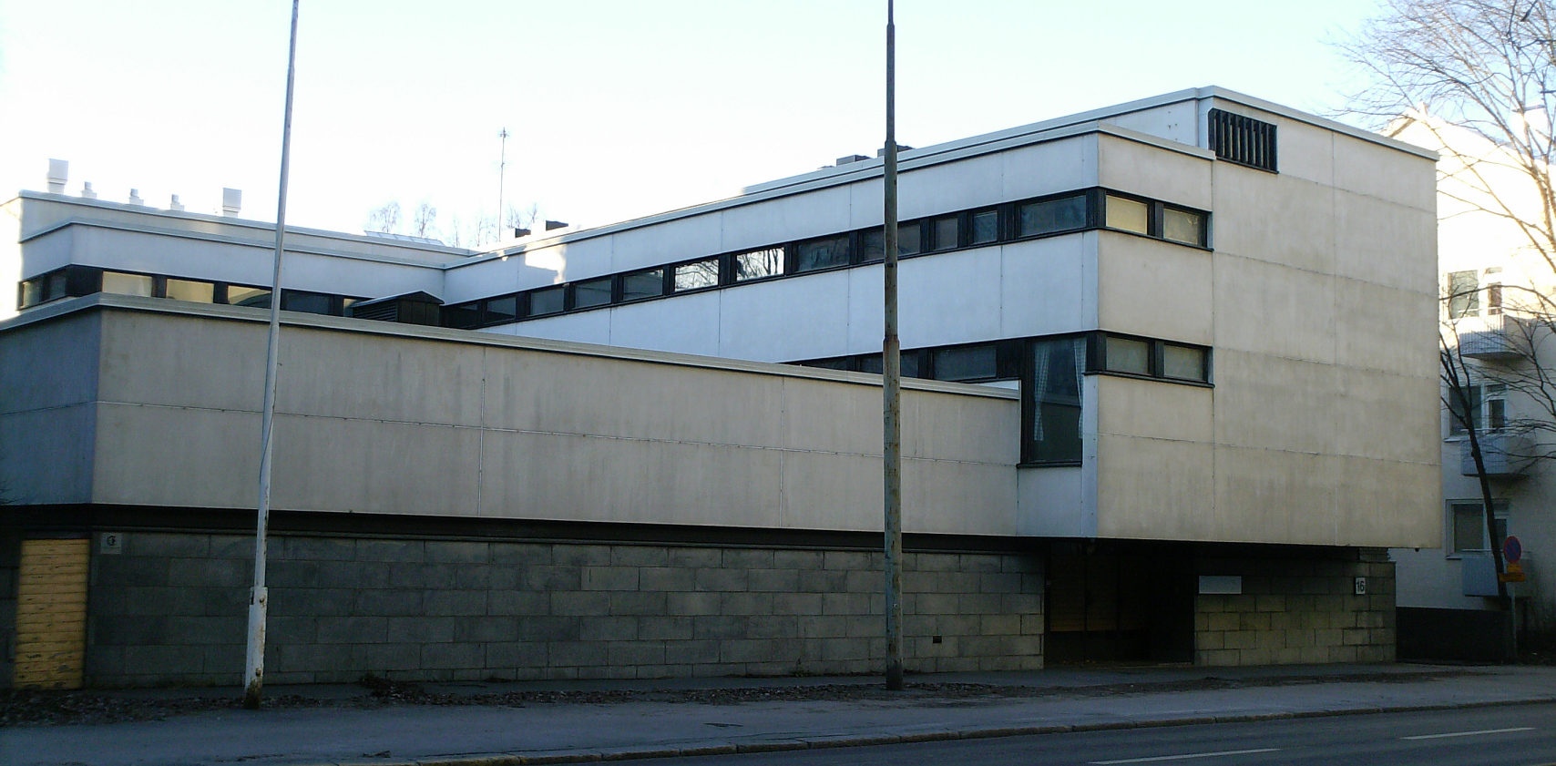 Photograph of the building at Topeliuksenkatu 16, Helsinki. Previously Svenska social- och kommunalhögskolan. Drawn by Erik Kråkström.